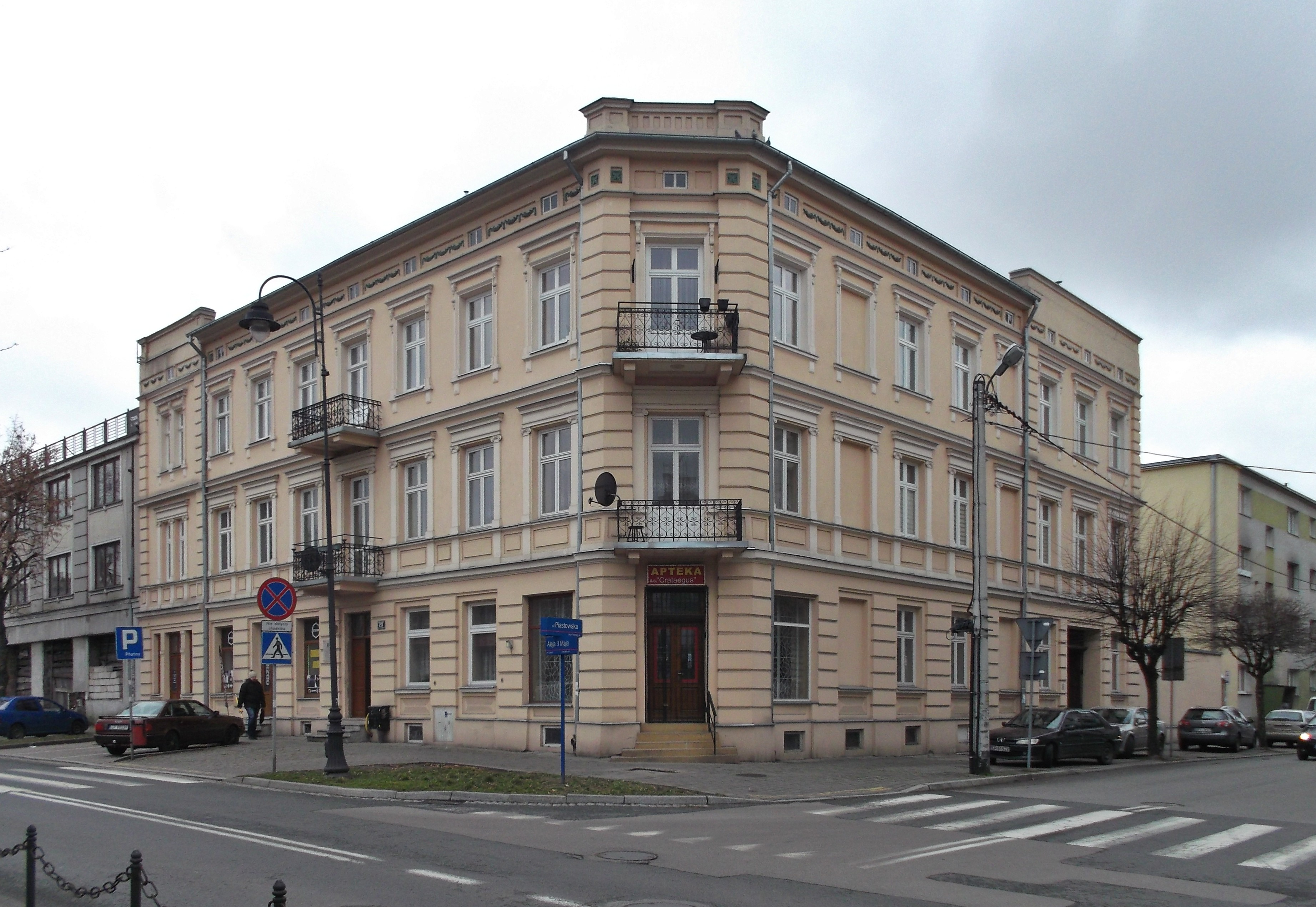 House, 23 3 Maja Street in Piotrków Trybunalski in Poland.